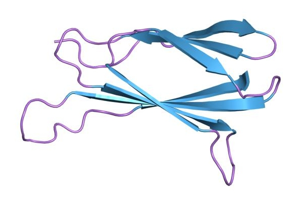 Cartoon representation of the molecular structure of protein registered with 1ttg code.